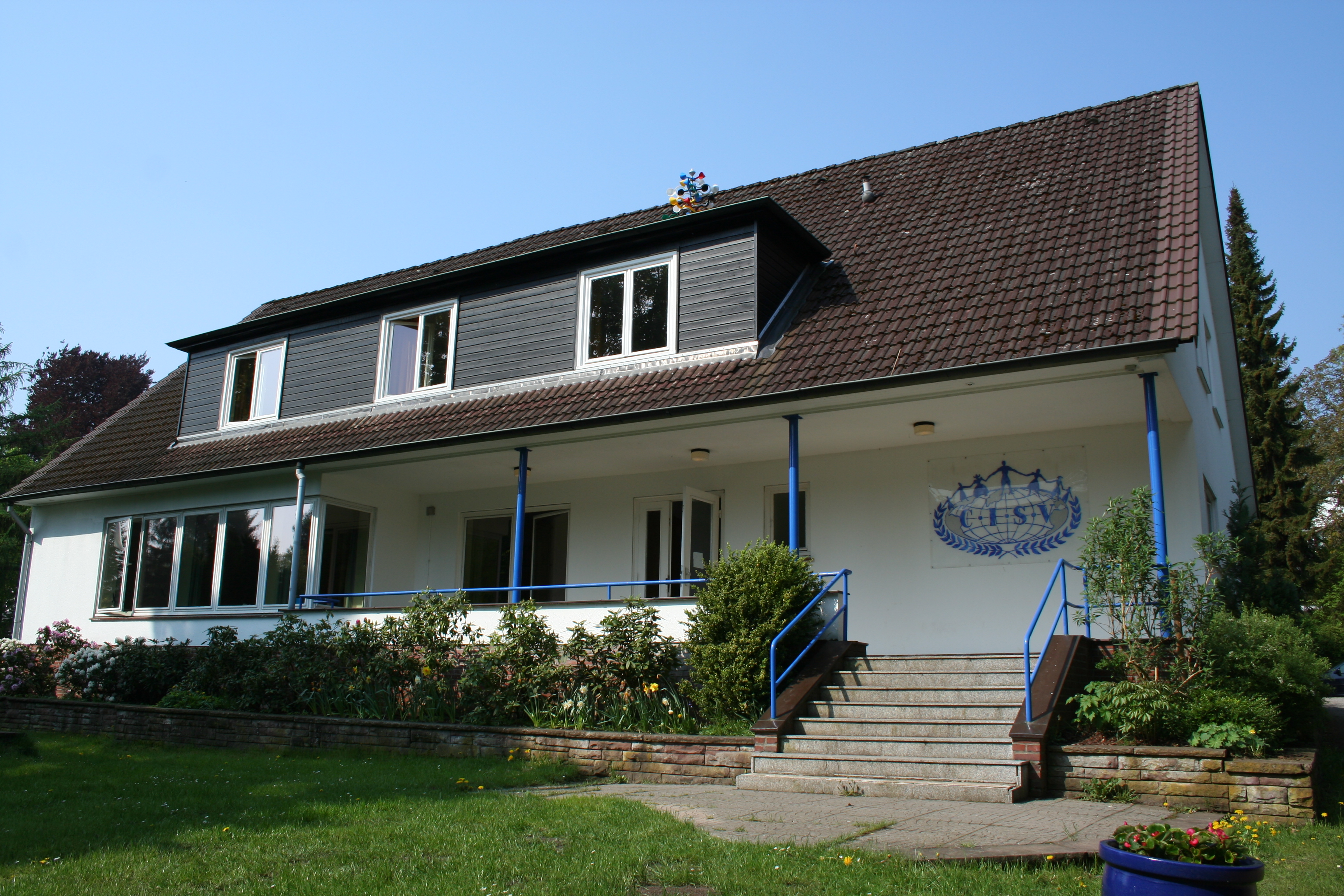 The CISV House in Hamburg, Germany